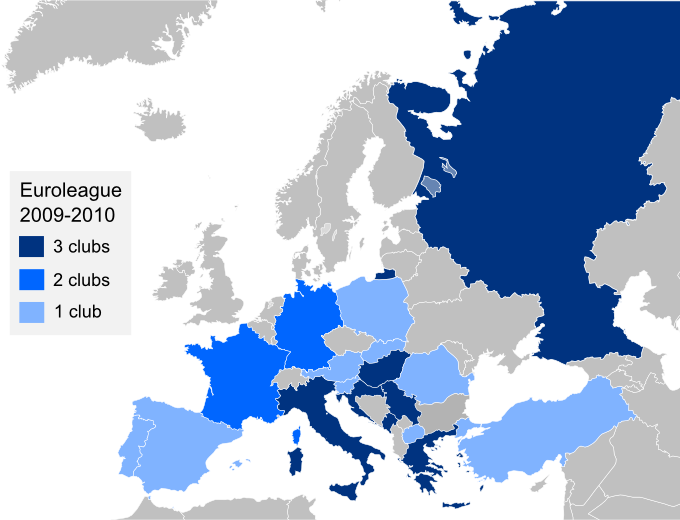 Map of the countries participating to the Water polo Euroleague 2009-2010 (number of clubs per countries)